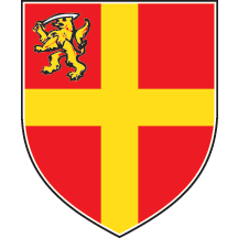 Coat of arms of Požarevac (2001-2006)